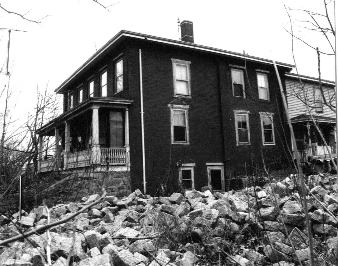 Potter-O'Brian House, Waltham, Massachusetts. This house has been demolished.